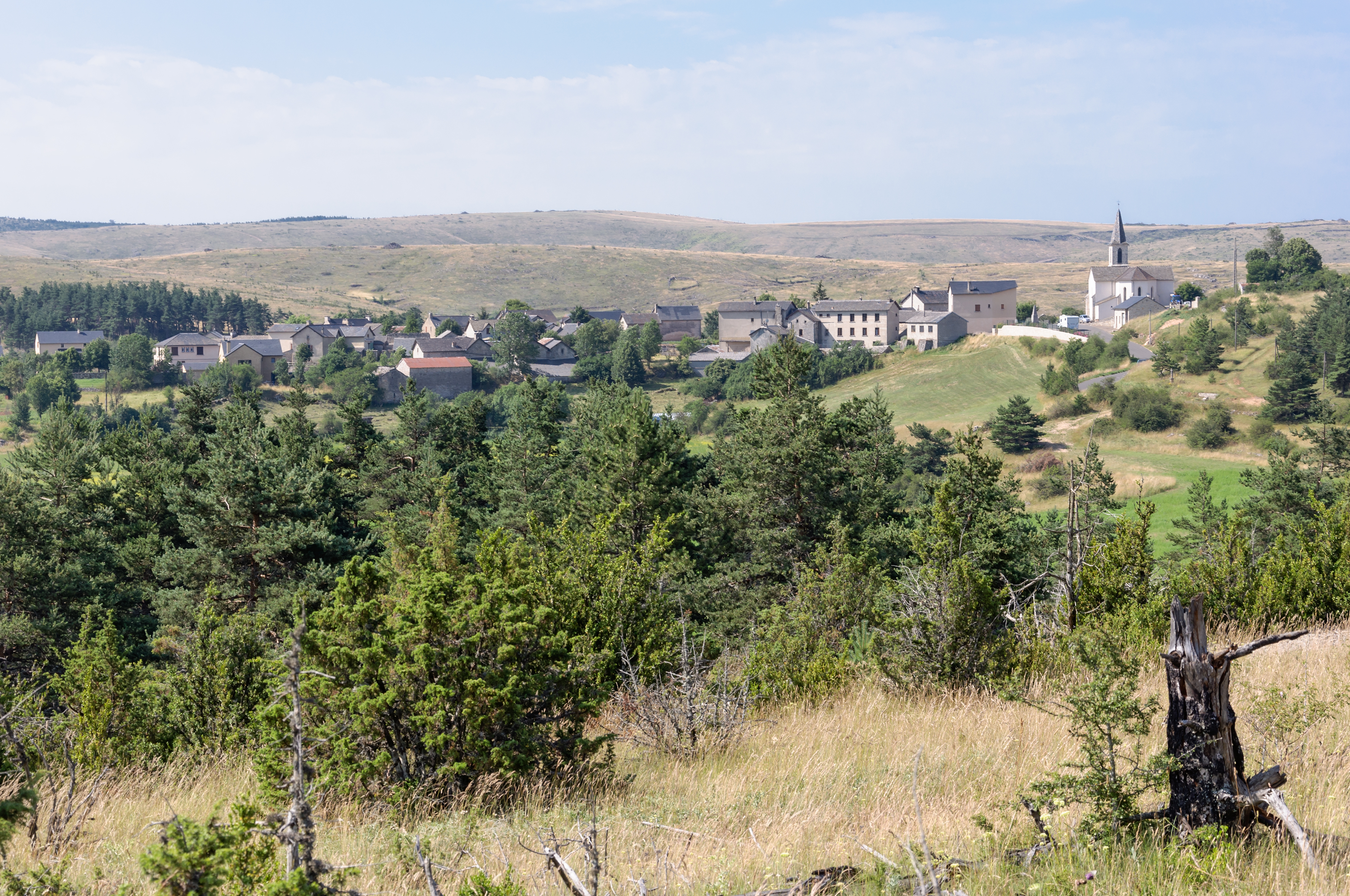 A view of Mas-Saint-Chély on Causse Méjean (Lozère, France)